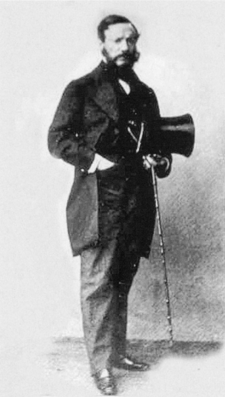 Photo from a carte de visite of Nestor Roqueplan (1805–1970)